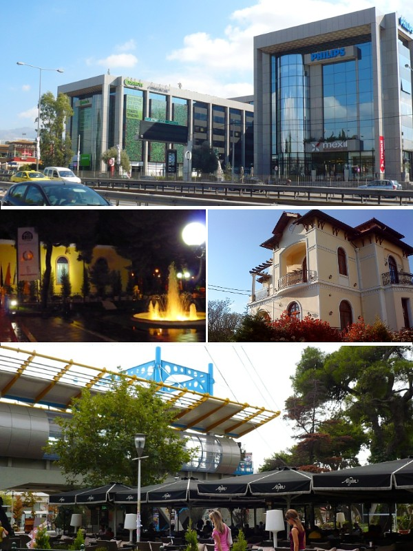 Maroussi collage